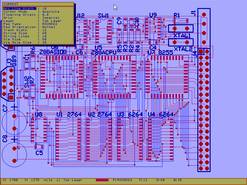 Screenshot of Protel Autotrax running with generic VESA video card driver in a Virtual Machine, hosted on Windows 7. The PCB design shown is the "DEMO.PCB" reference board which was always installed with the software.